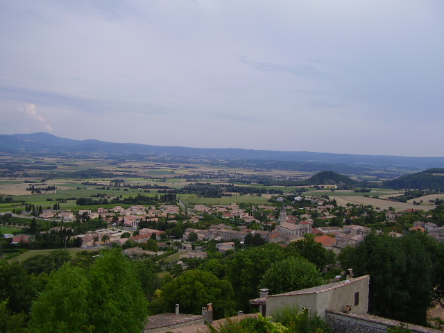 Church of Marsanne (Drôme, France)